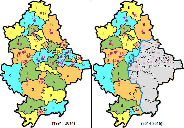 Districts (raions): a — Amvrosiivka, b — Artemivsk, c — Velyka Novosilka, d — Volnovakha, e — Volodarske, f — Dobropillia, g — Kostiantynivka, h — Krasnoarmiisk, i — Krasnyi Lyman, j — Marinka, k — Novoazovsk, l — Oleksandrivka, m — Pershotravnevyi, n — Sloviansk, o — Starobesheve, p — Telmanove, q — Shakhtarsk, r — Yasynuvata, City of regional significance: 1 — Donetsk, 2 — Avdiivka, 3 — Artemivsk, 4 — Vuhledar, 5 — Horlivka, 6 — Debaltseve, 7 — Dzerzhynsk, 8 — Dymytrov, 9 — Dobropillia, 10 — Dokuchaievsk, 11 — Druzhkivka, 12 — Yenakiieve, 13 — Zhdanivka, 14 — Kirovske, 15 — Kostiantynivka, 16 — Kramatorsk, 17 — Krasnyi Lyman, 18 — Krasnoarmiisk, 19 — Makiivka, 20 — Mariupol, 21 — Novohrodivka, 22 — Selydove, 23 — Sloviansk, 24 — Snizhne, 25 — Torez, 26 — Khartsyzk, 27 — Shakhtarsk, 28— Yasynuvata